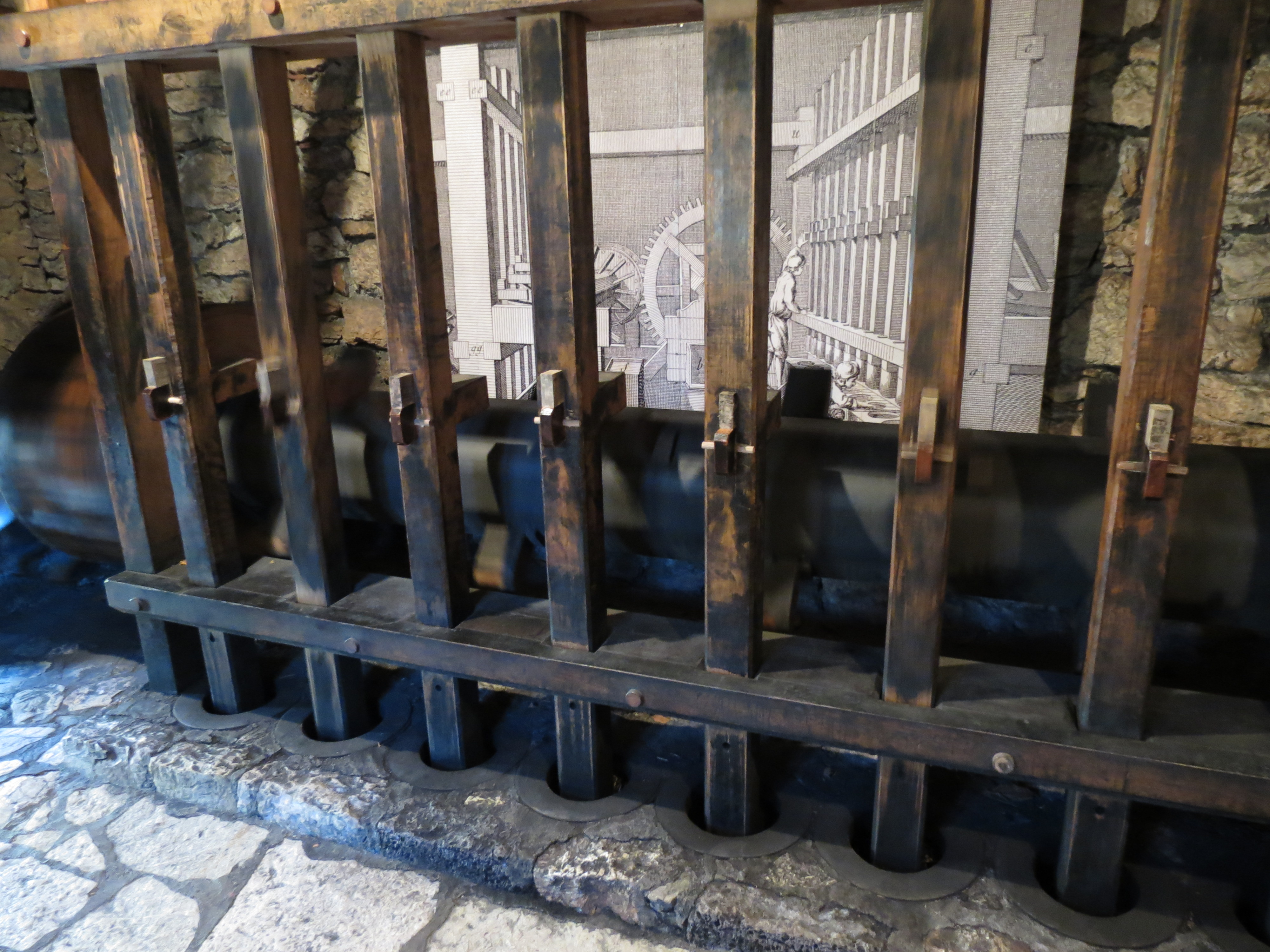 Working gunpowder making watermill, part of the open air museum for hydro power at Dimitsana, Arkadia, Greece